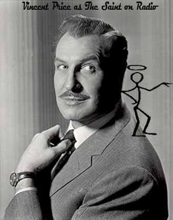 The longest-running and best known radio incarnation of Simon Templar was Vincent Price, who played the character in a long-running series that was broadcast between 1947 and 1951 on no fewer than three networks: CBS, Mutual and NBC. After Price left the series in May 1951, he was replaced by Tom Conway, who played the role for several more months. (His brother, George Sanders, played Templar on film.) In an early 1970s interview about his work on radio, Vincent Price had this to say about portraying The Saint, "Each week I had to come up with a new way to sound when I would inevitably be hit on the head."